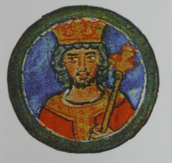 Otto I, Holy Roman Emperor